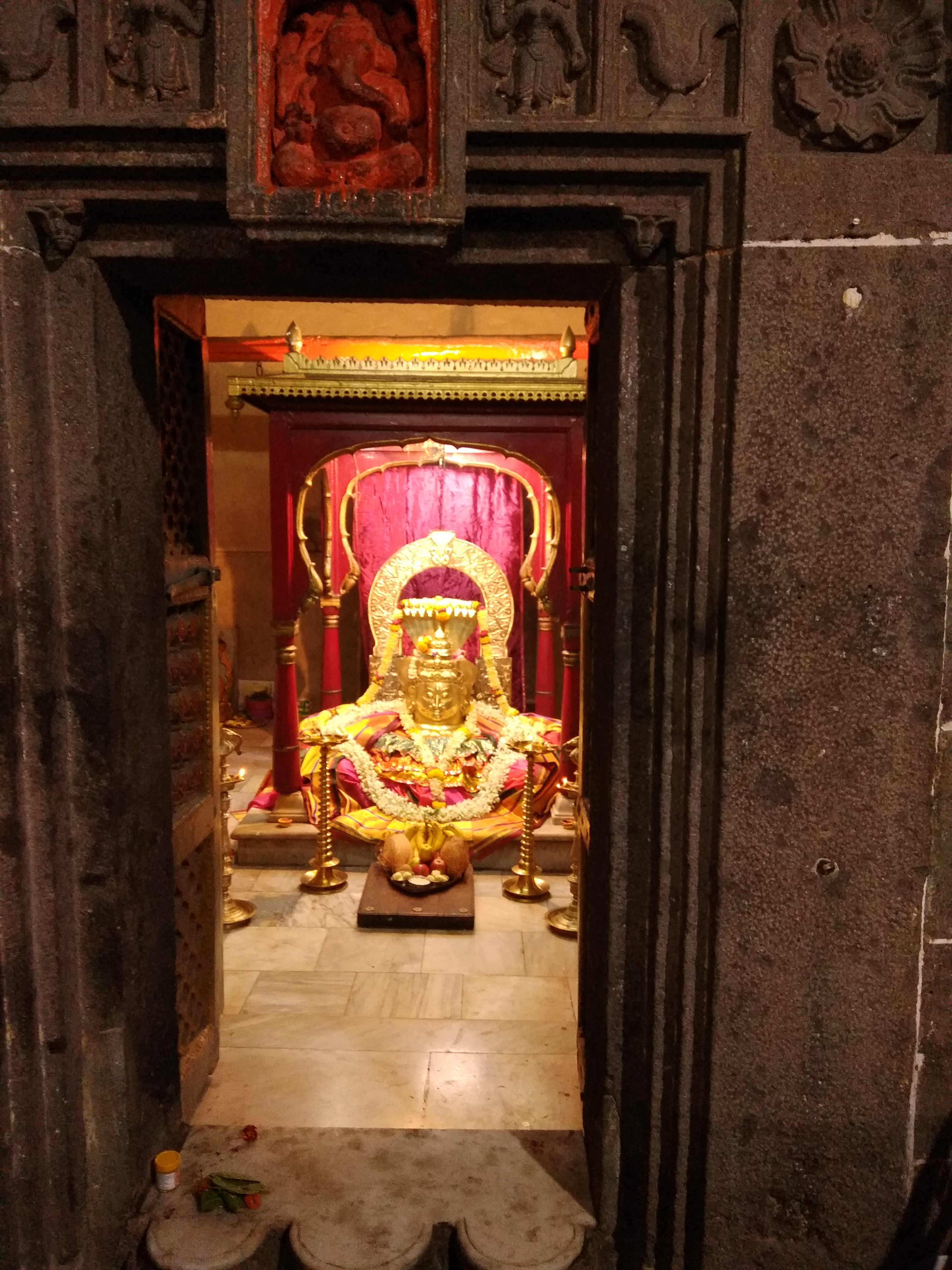 Tripuri purnima special pooja at omkareshwar temple Pune